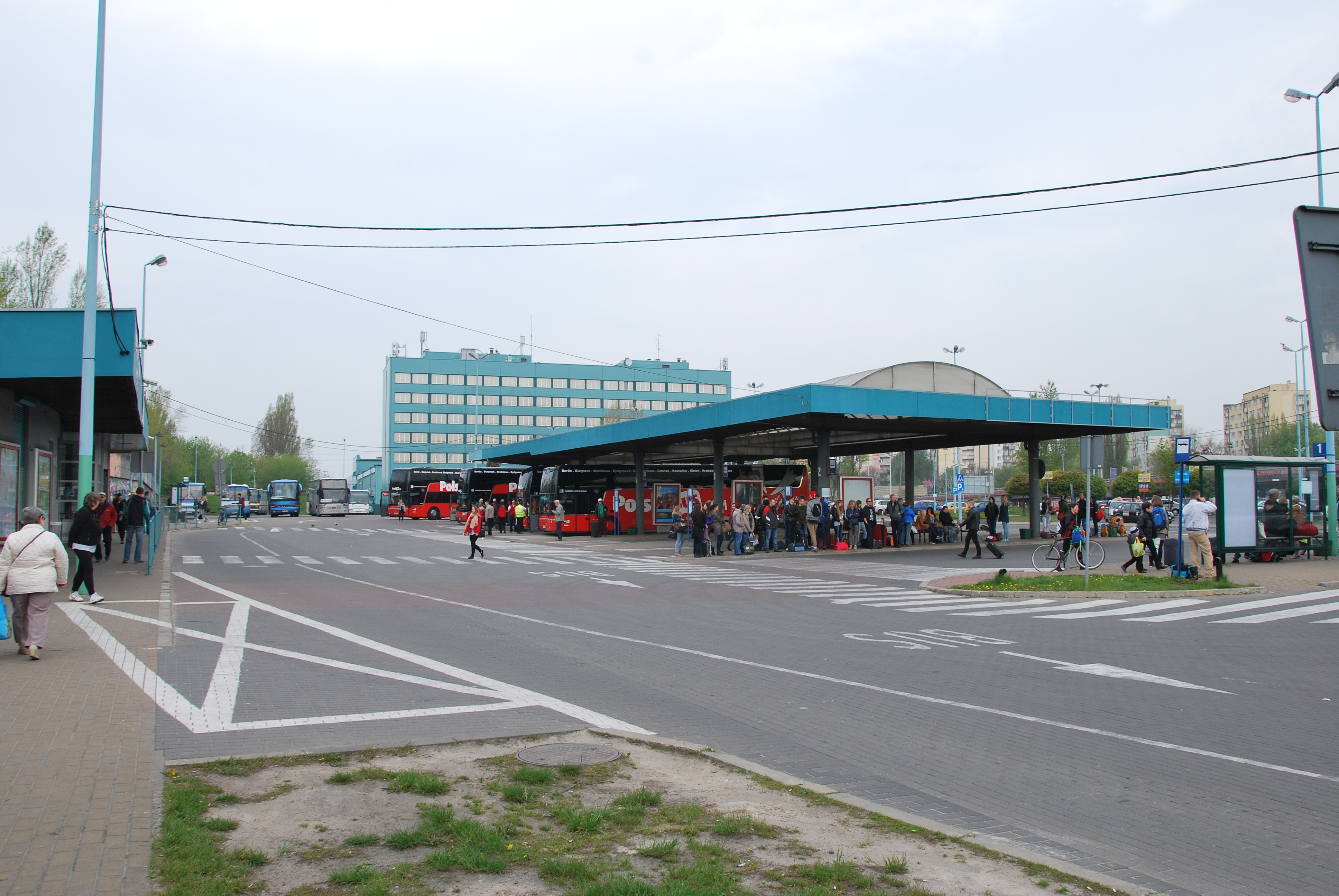 Łódź Kaliska bus station